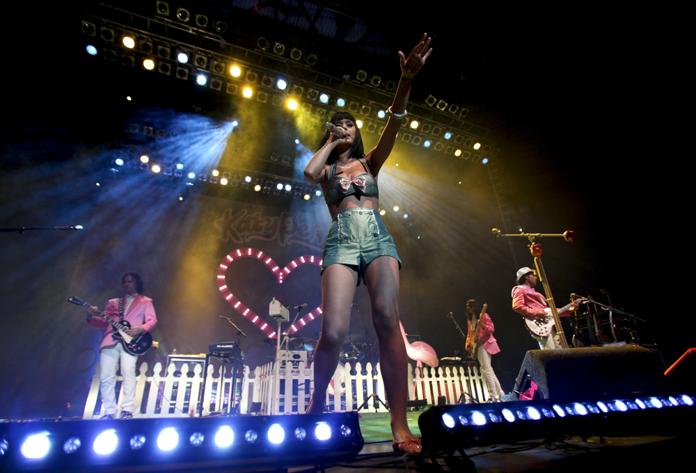 American singer Katy Perry, performing live at Campo Pequeno, June 28th 2009, in Lisbon.